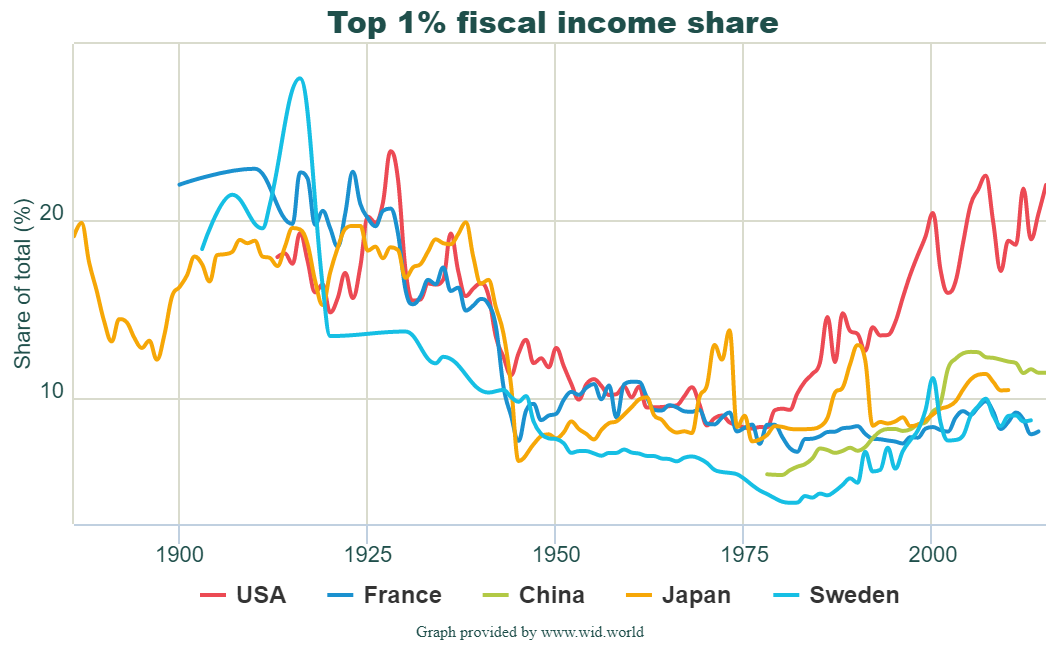 Top 1% fiscal income share